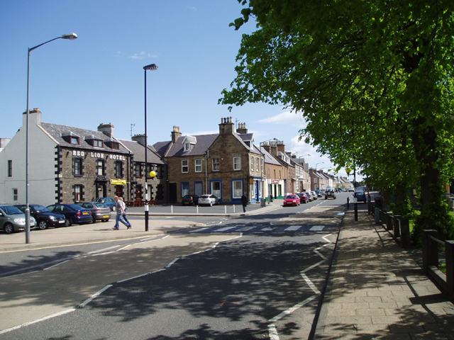 Main Street, Earlston